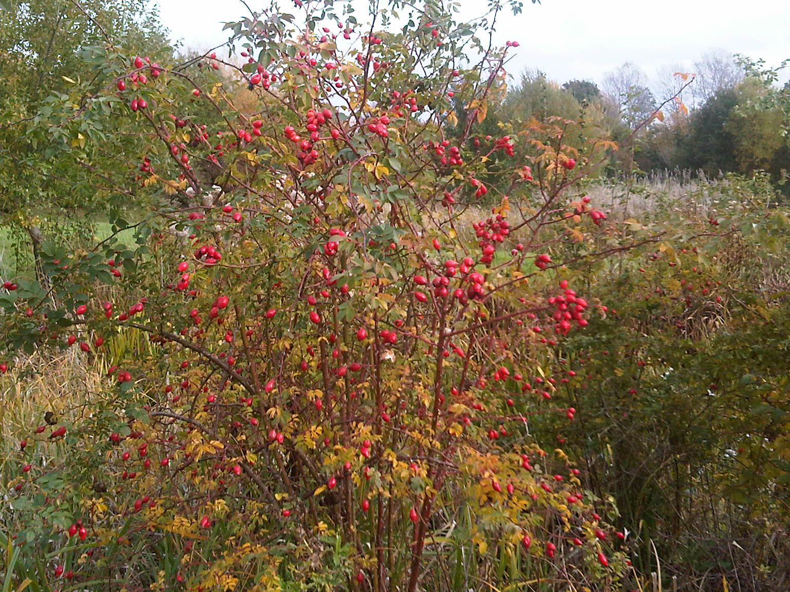 Rose hip, or rose haw (Rosa canina) in WWT London Wetland Centre, England.